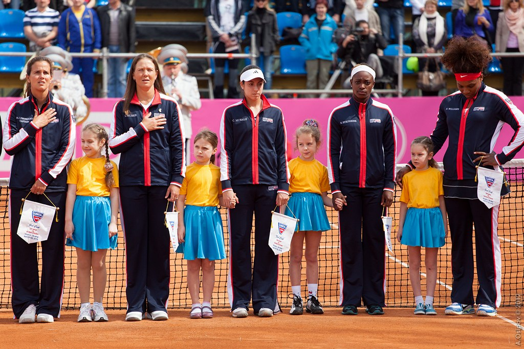 USA Fed Cup Team 2012: Captain Mary Joe Fernandez, Liezel Huber, Christina McHale, Sloane Stephens, Serena Williams